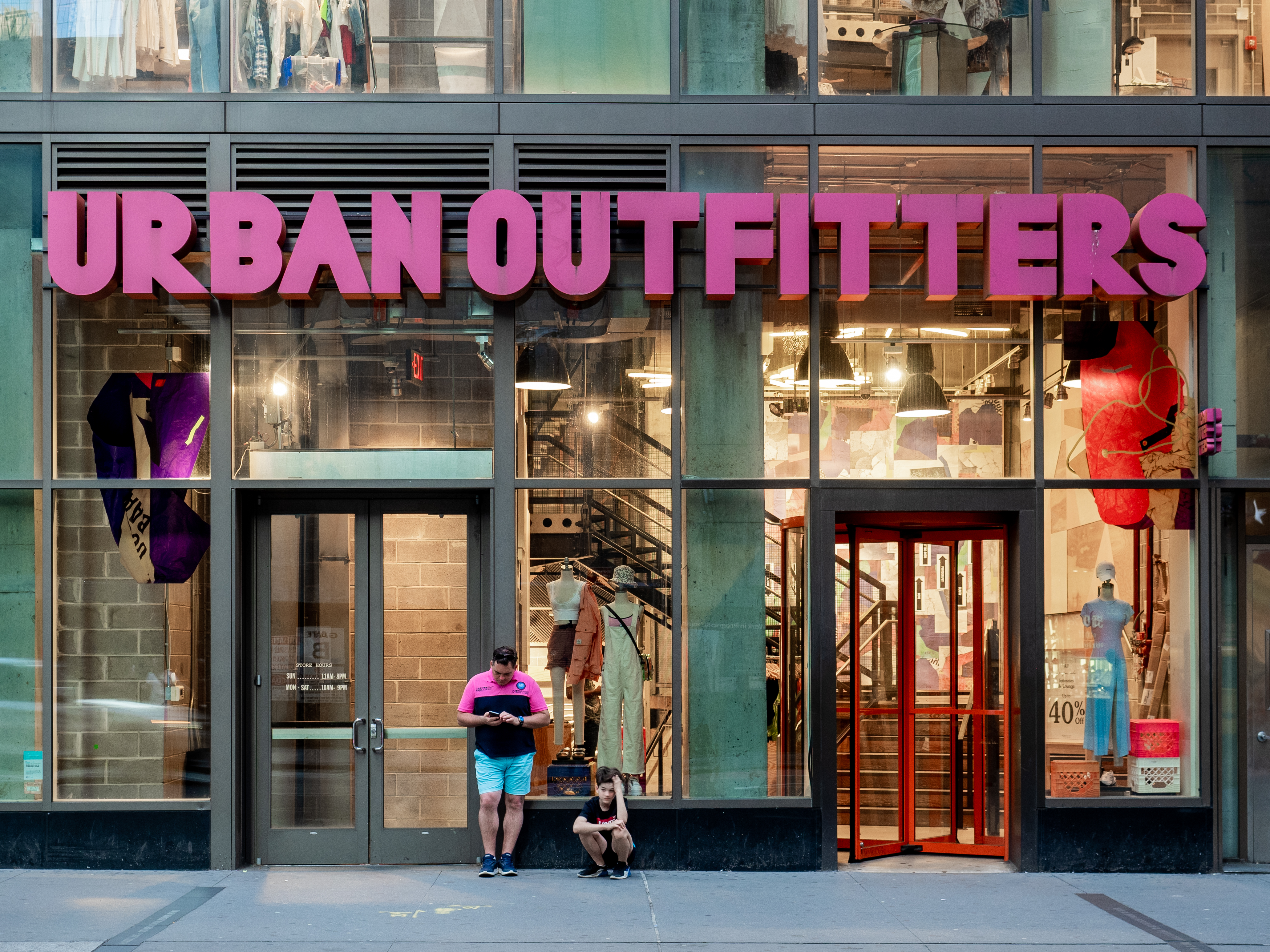 Financial District, NYC